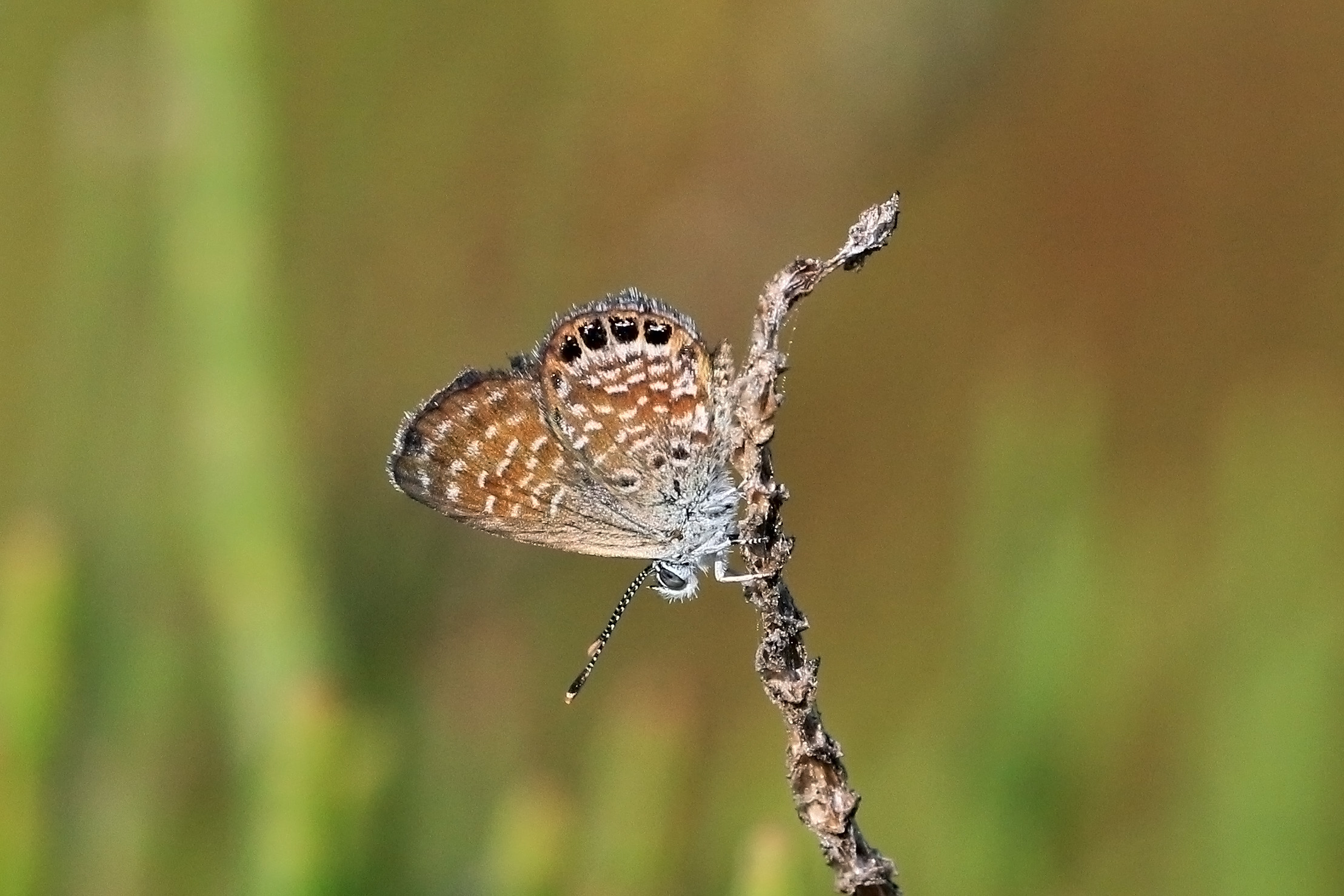 Grand Cayman pygmy blue (Brephidium exilis thompsoni) on Salicornis perennis, Grand Cayman. The smallest butterfly in the World.